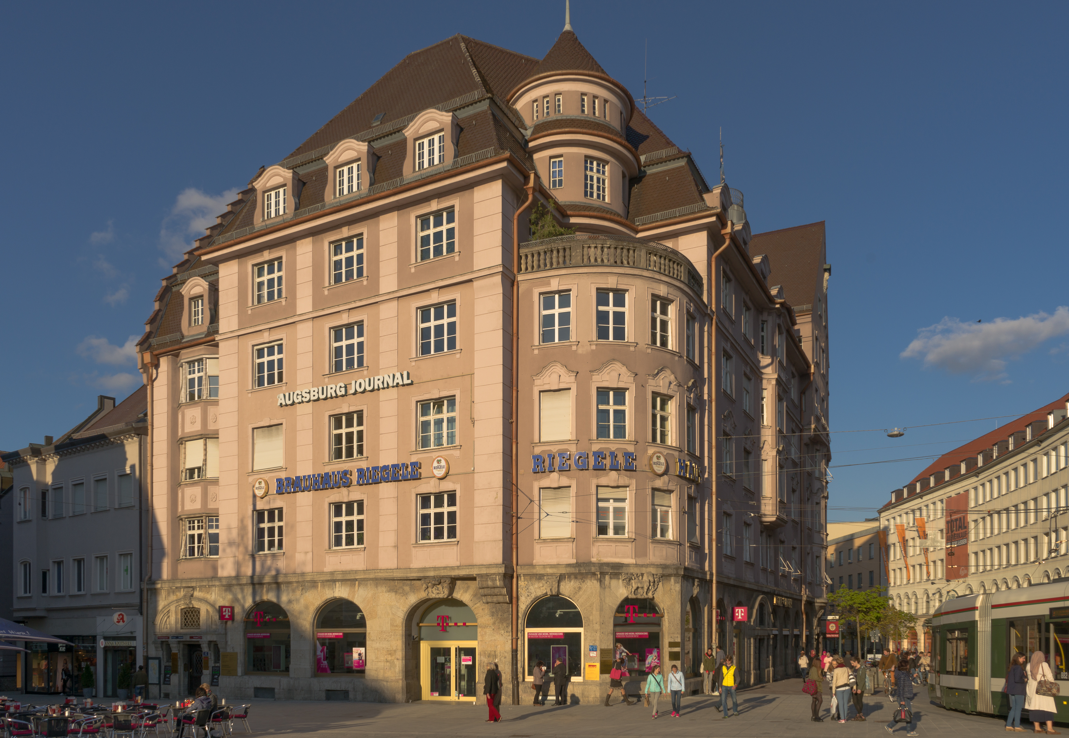 The former Brauhaus Riegele in Augsburg. Now housing offices for the Augsburg Journal and a shop for the german Telekom.